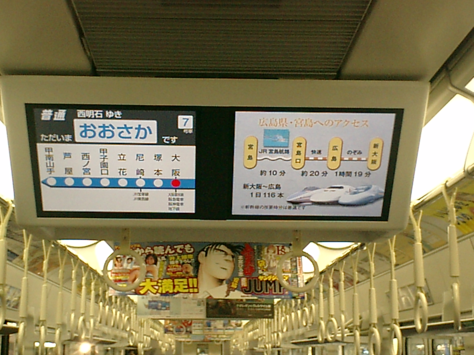 A guidance indication monitor inside the car JR West 321 photography place JR Osaka Station